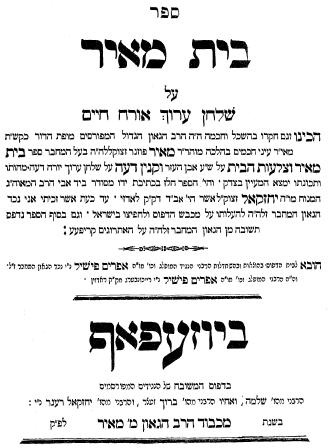 Sefer Bet Meʼir : Oraḥ ḥayim / ḥibro Meʼir.